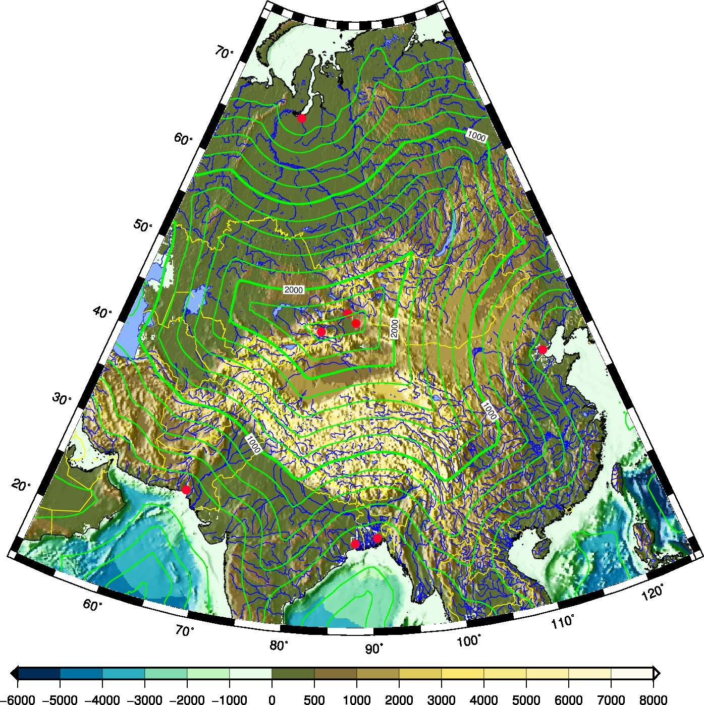 This map depicts the contour lines of distance to the seas (in km) in central Asia. It is based on the algorithm described by Garcia-Castellanos & Lombardo (2007, Scottish Geographical Journal). Red dots indicate the two furthest points from the coast (Eurasian Pole of Inaccessibility, EPIA) and the triplets of locations in the coast closest to those two poles. The third dot in the center of Asia is a miscalculated location of the EPIA cited in the literature (Crane & Crane, 1987).